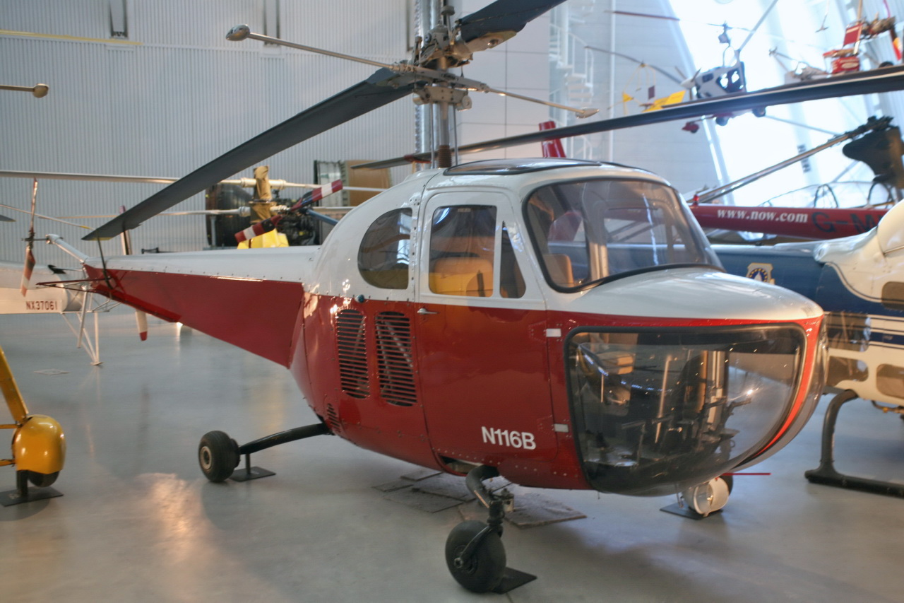 The Bell 47B N116B displayed at Steven F. Udvar-Hazy Center